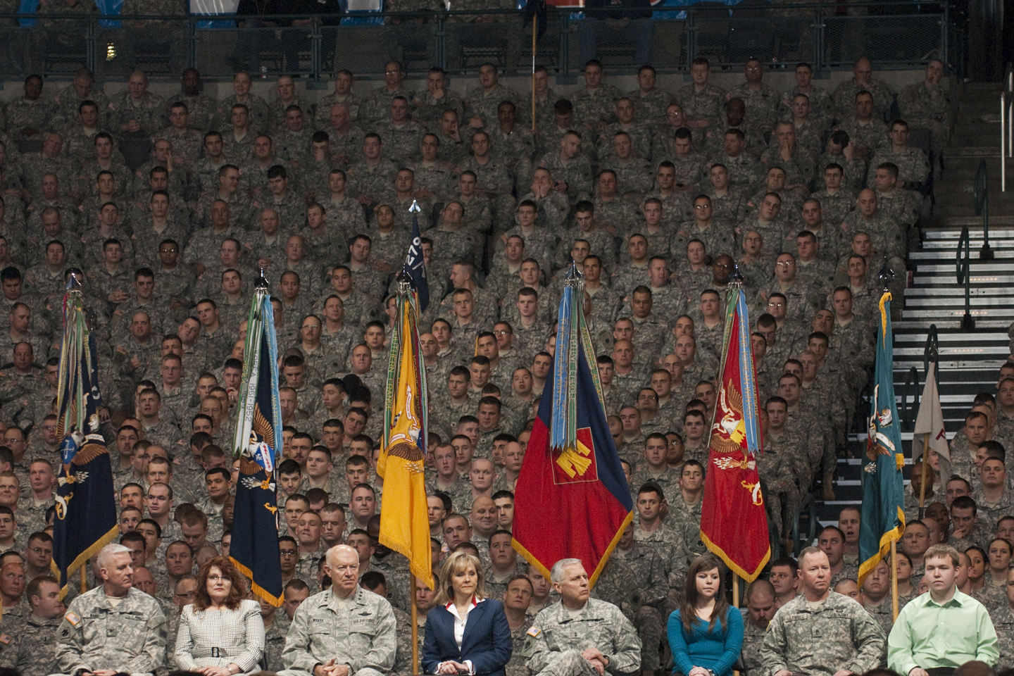 Soldiers of the 45th Infantry Brigade Combat Team prepare to deploy in support of Operation Enduring Freedom in February 2011